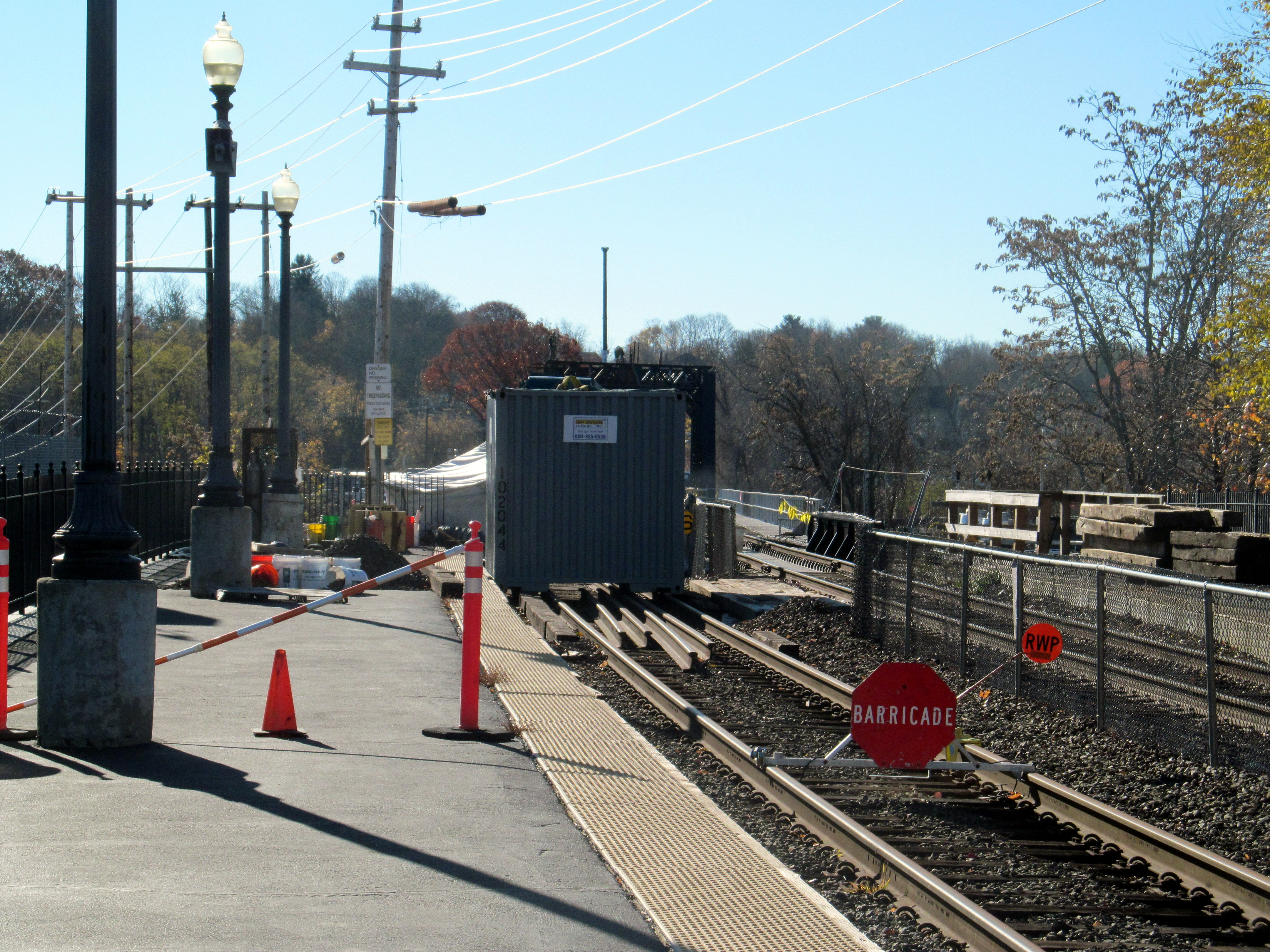 Merrimack River Bridge work viewed from Haverhill station in November 2016